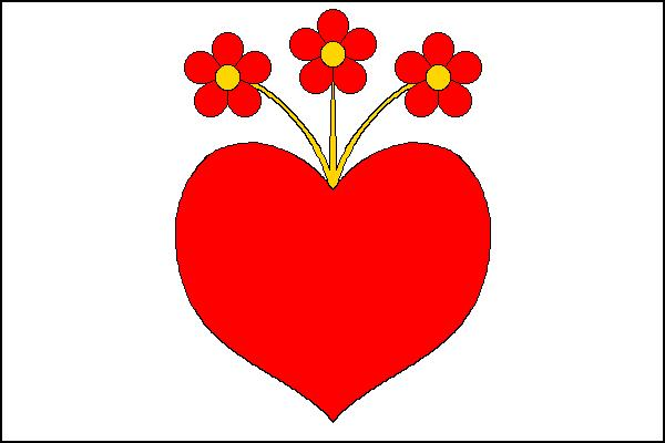 Flag of the village of Dobré Pole, Czech Republic.